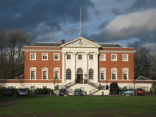 Warrington Town Hall The present town hall was purchased in 1872, formerly Bank Hall the seat of the Patten family erected in 1750 and designed by James Gibbs. It is a fine specimen of a large classical country house with good plaster wall and ceiling decorations and a pediment on the front bearing the Patten arms. The hall and gardens were originally surrounded by a high wall and could not be seen from Sankey Street, fortunately in 1893, Mr Frederick Monks, a member of the Council and director of Monks Hall Foundry, saw some magnificent gates on one of his visits to Ironbridge. Originally exhibited by the Coalbrookdale Company at the International Exhibition in London in 1862, he offered them as a gift to the Council and they have graced the Sankey Street frontage ever since.